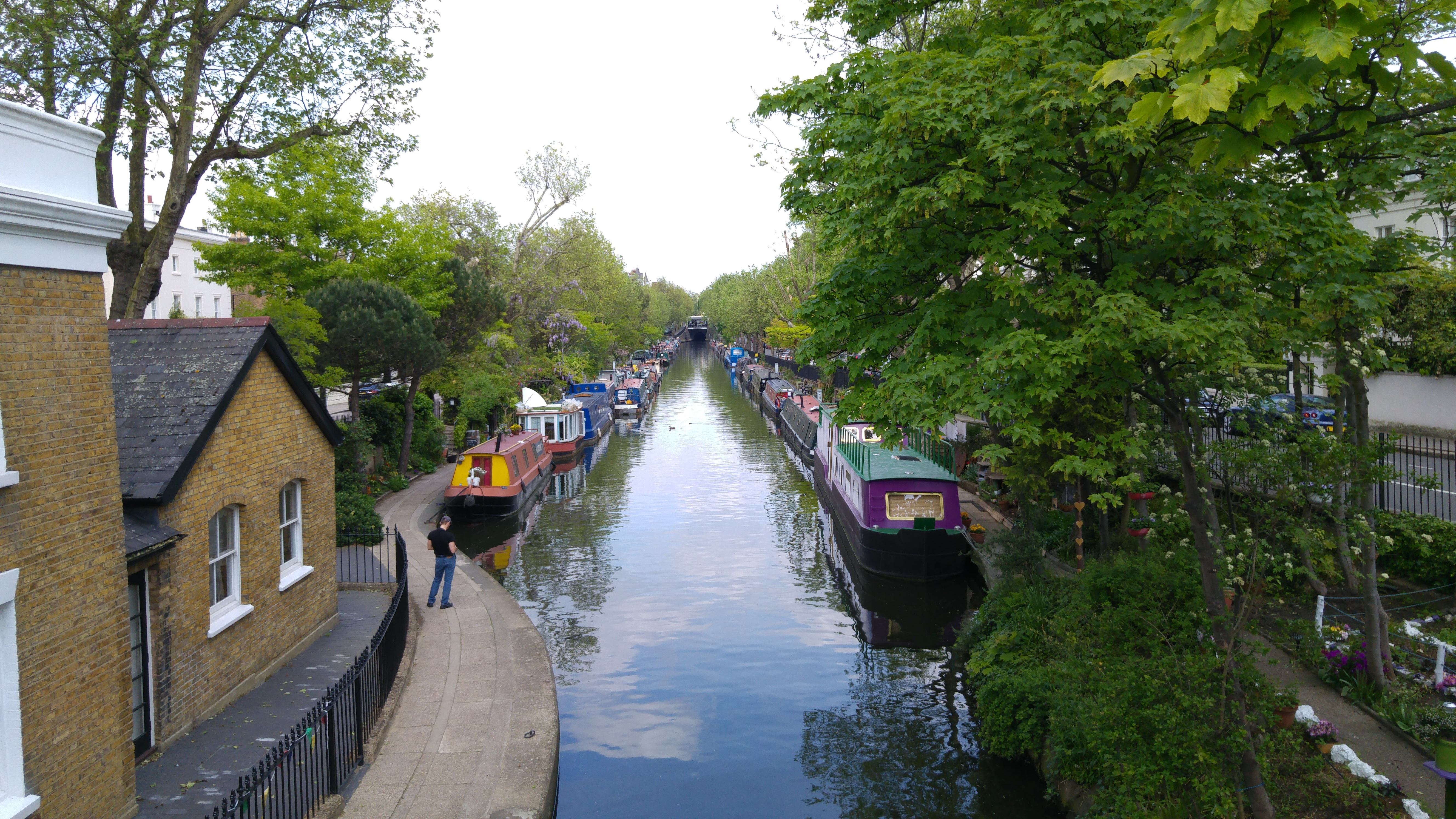 Regent's Canal as seen near Little Venice, London. Taken May 2016.